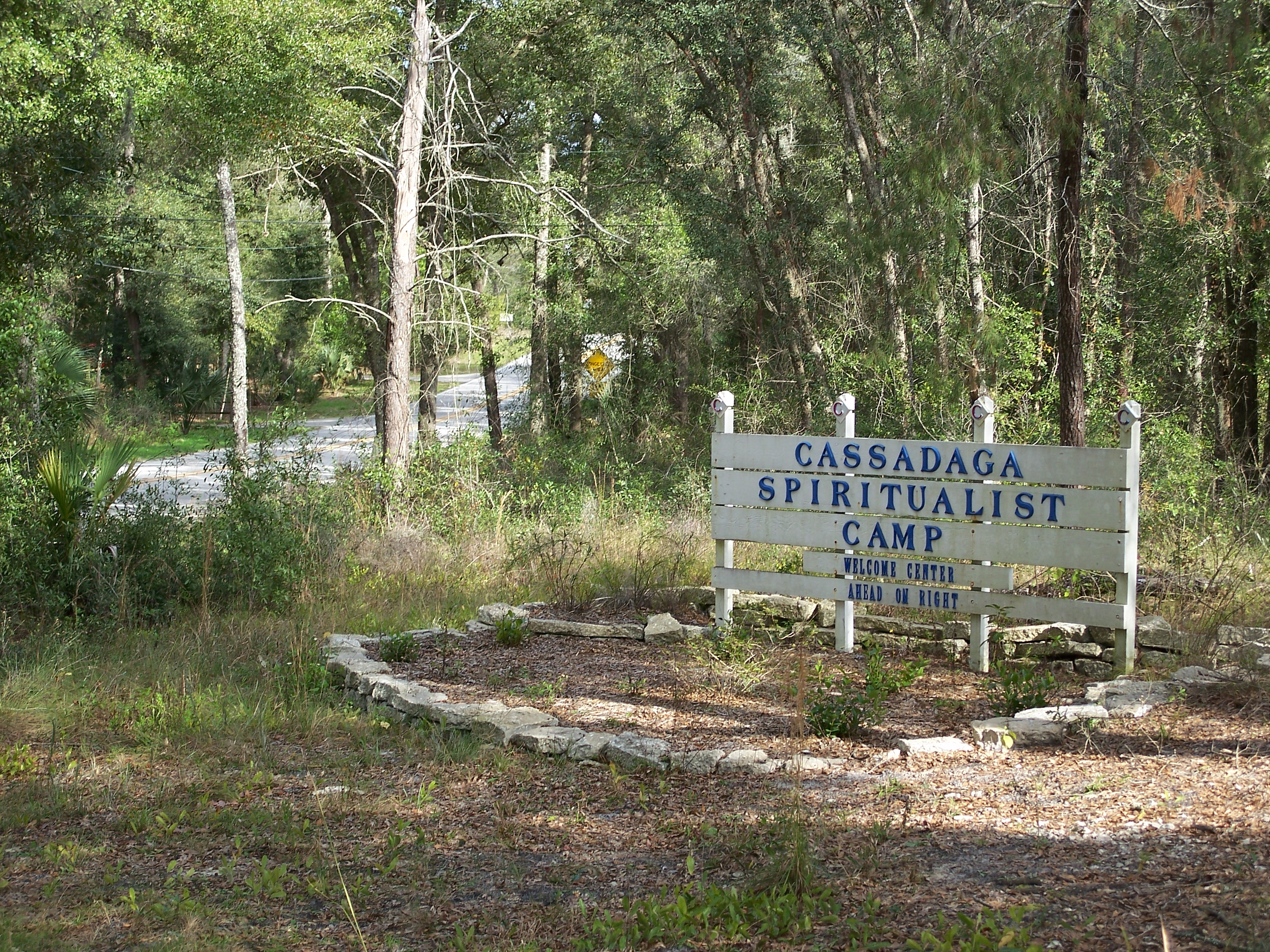 Western entrance to the Southern Cassadaga Spiritualist Camp Historic District, in Cassadaga, Florida